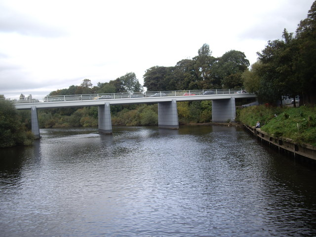 Clifton Bridge Road bridge over the River Ouse.